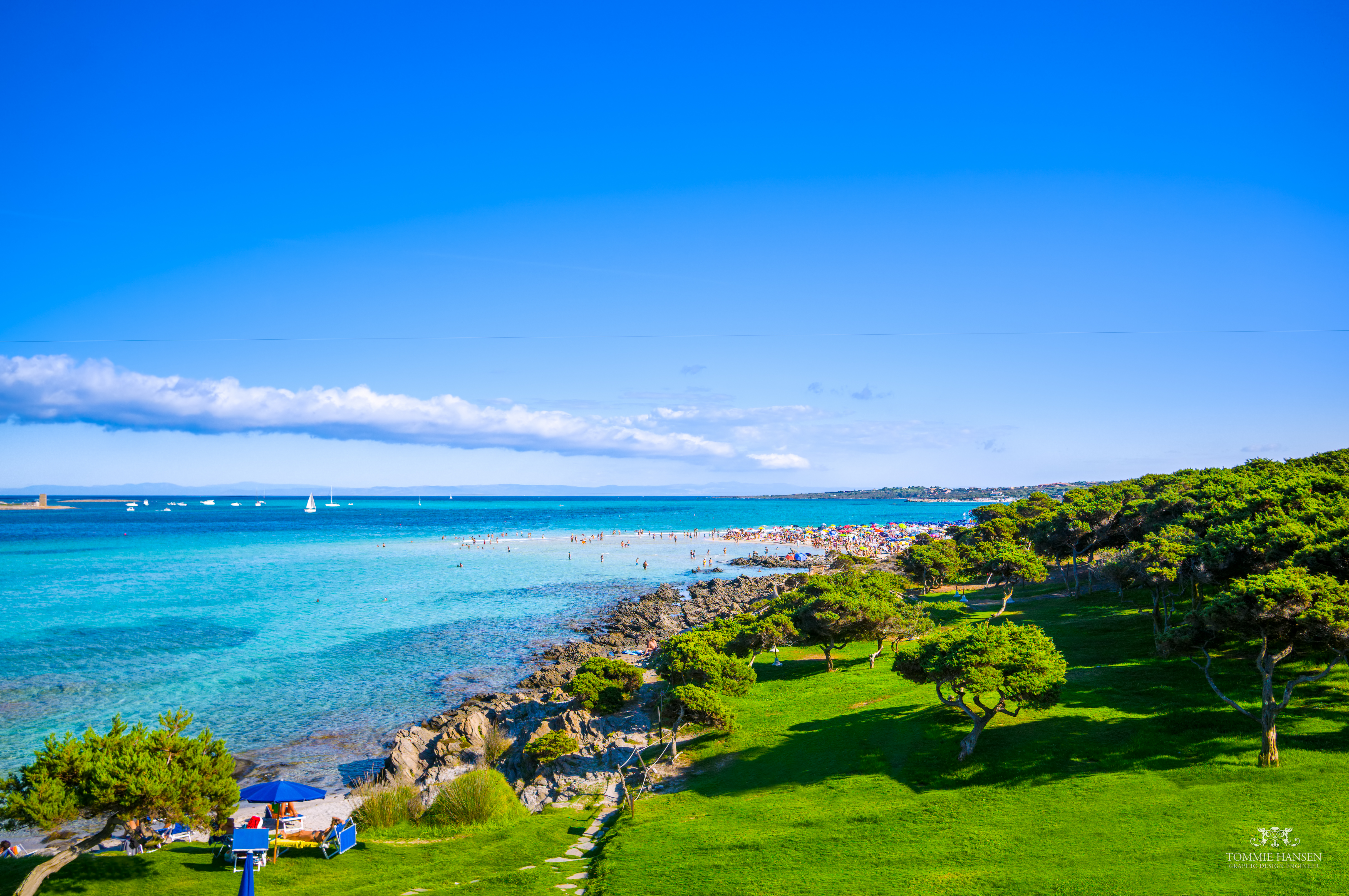 View of La Pelosa, Stintino (Sardinia, Italy)